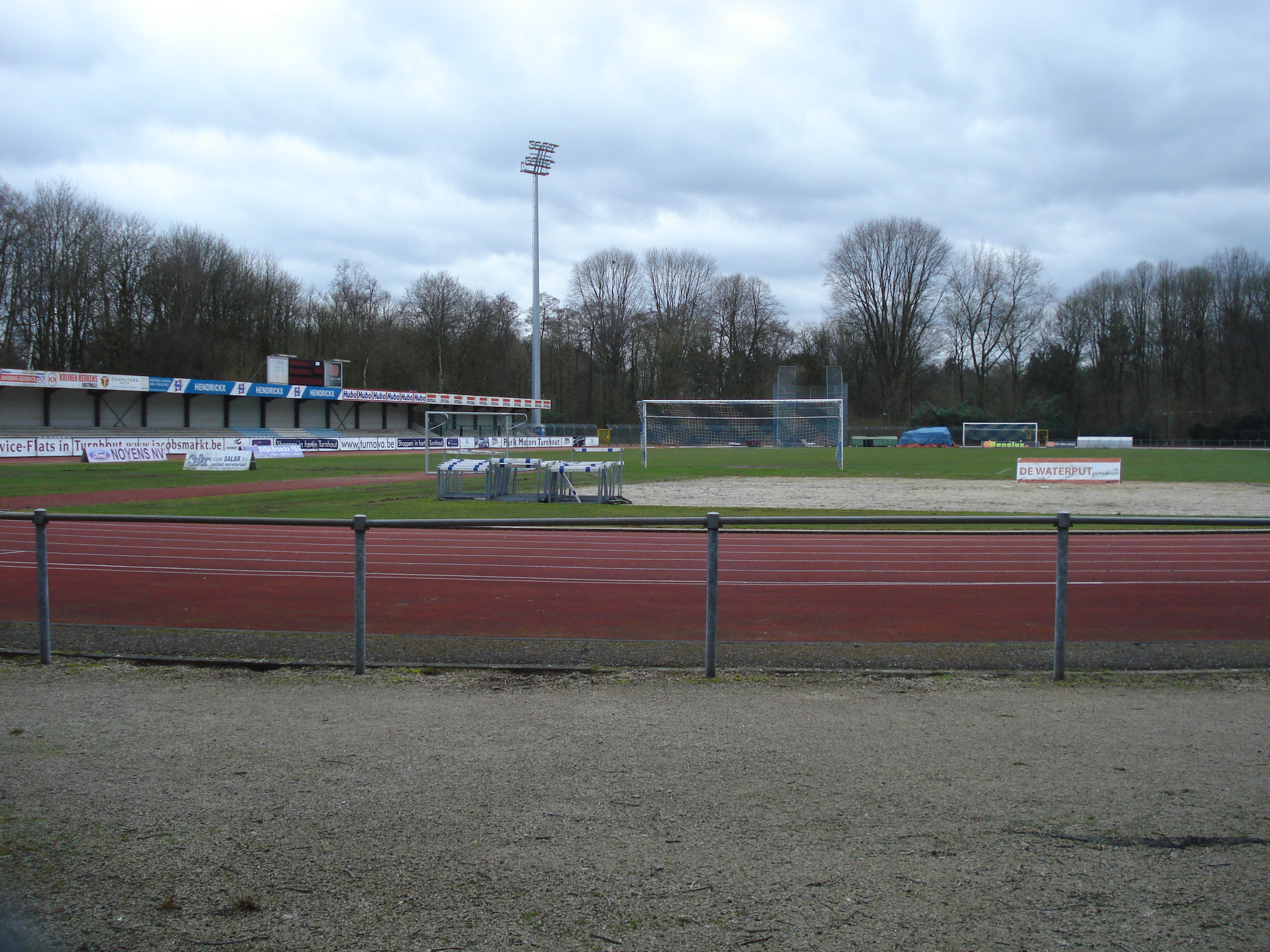 Turnhout, stadium